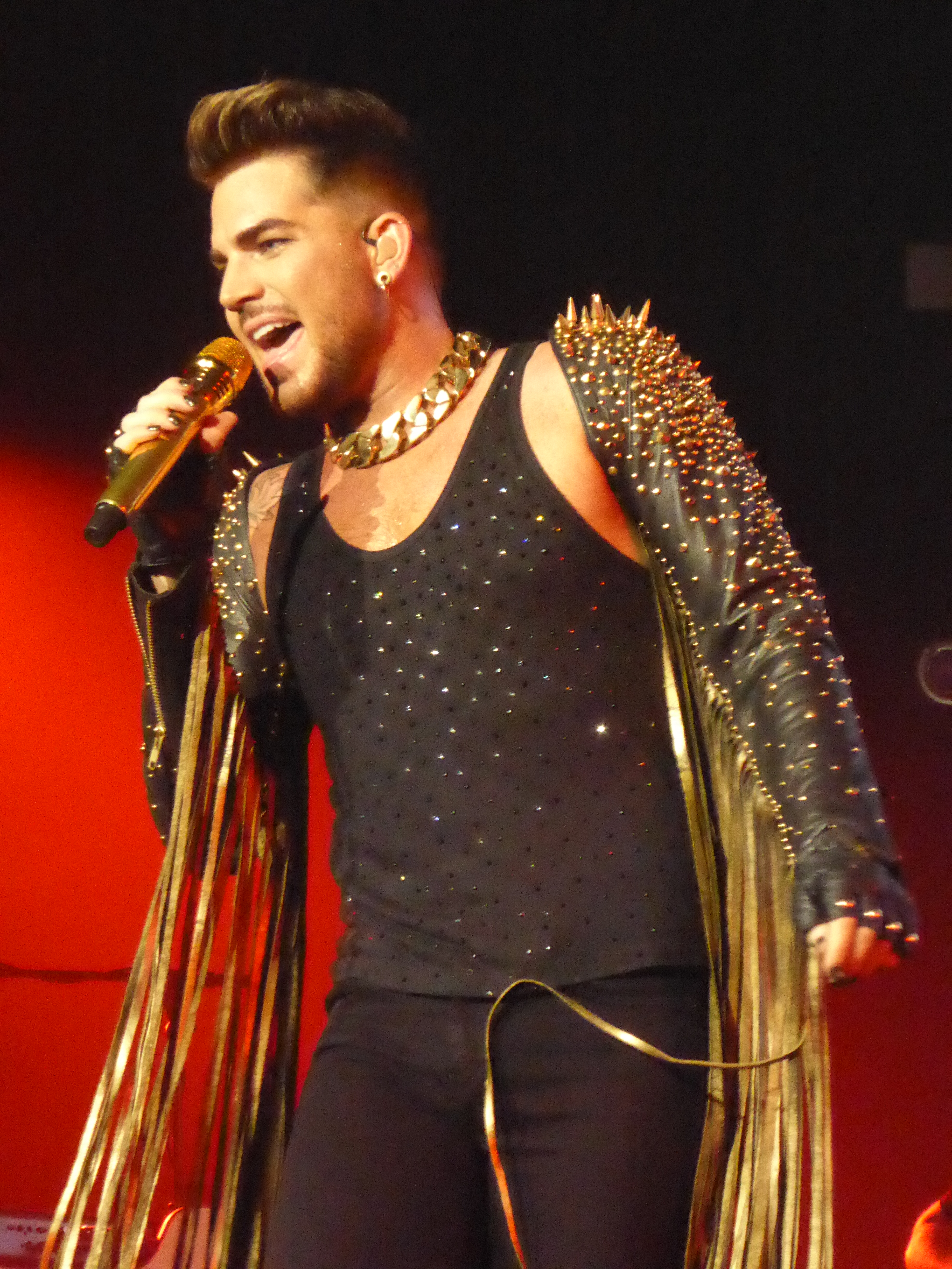 Adam Lambert performing with Queen at Las Vegas on July 5, 2014